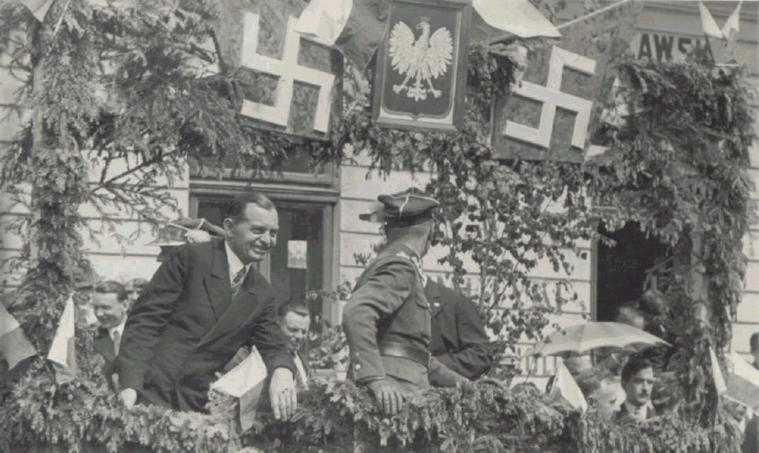 GFDL, 2 Pluton Strzecow Podhalanskich, 2 Gebirgsjaerger Regiment, Sanok, Poland, 1936, photo Marek Silarski